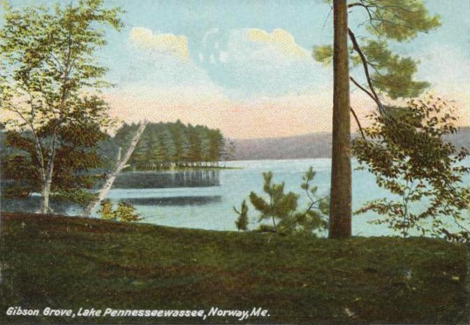 Gibson Grove, Lake Pennesseewassee, Norway, Maine